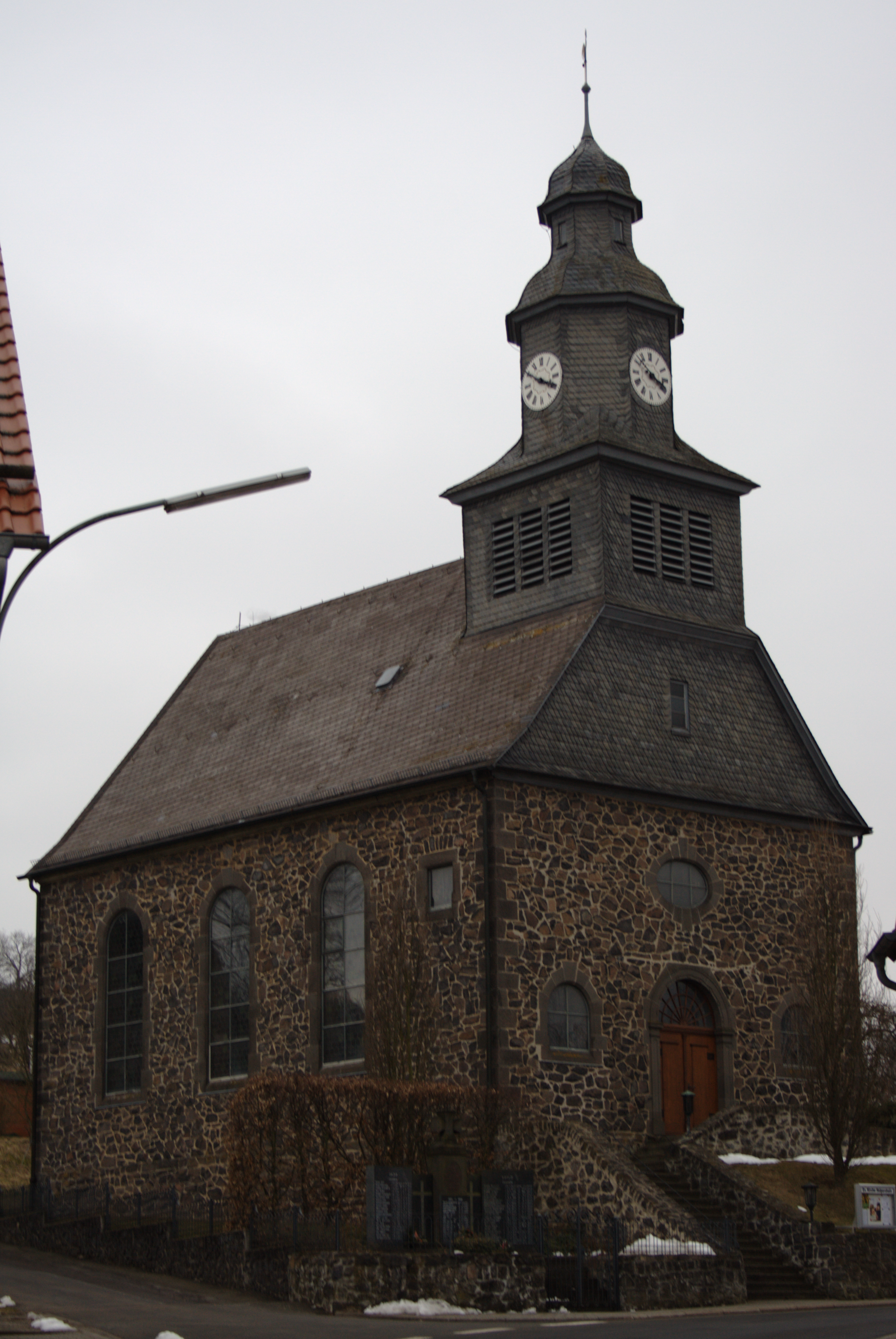 Protestant church in Helpershain, Vogelsbergstrasse 19, Ulrichstein, Hesse, Germany